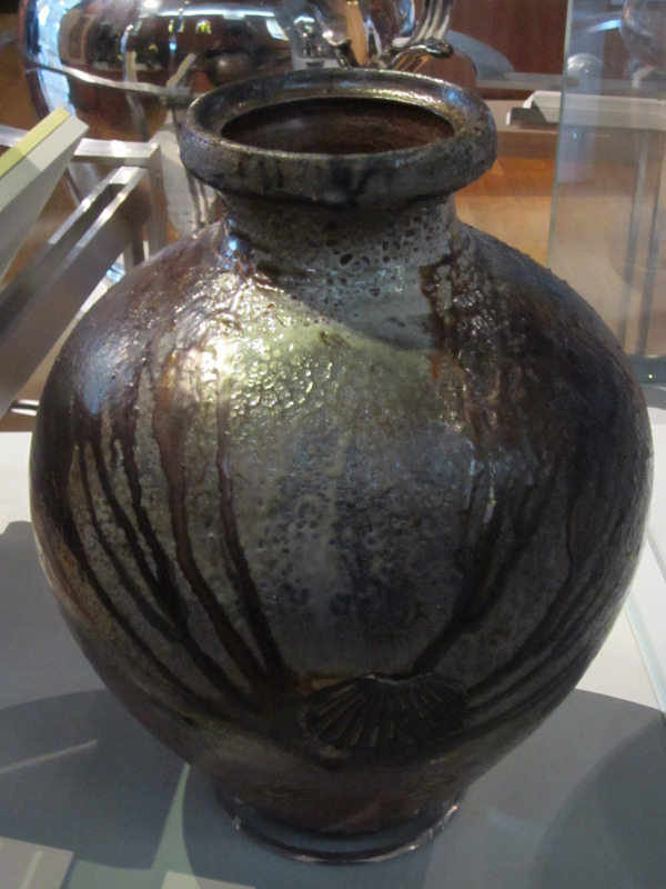 Stoneware hand-thrown, wood-fired vase, Walker Art Gallery, Liverpool, England. Made by Svend Bayer in Devon in 1997.